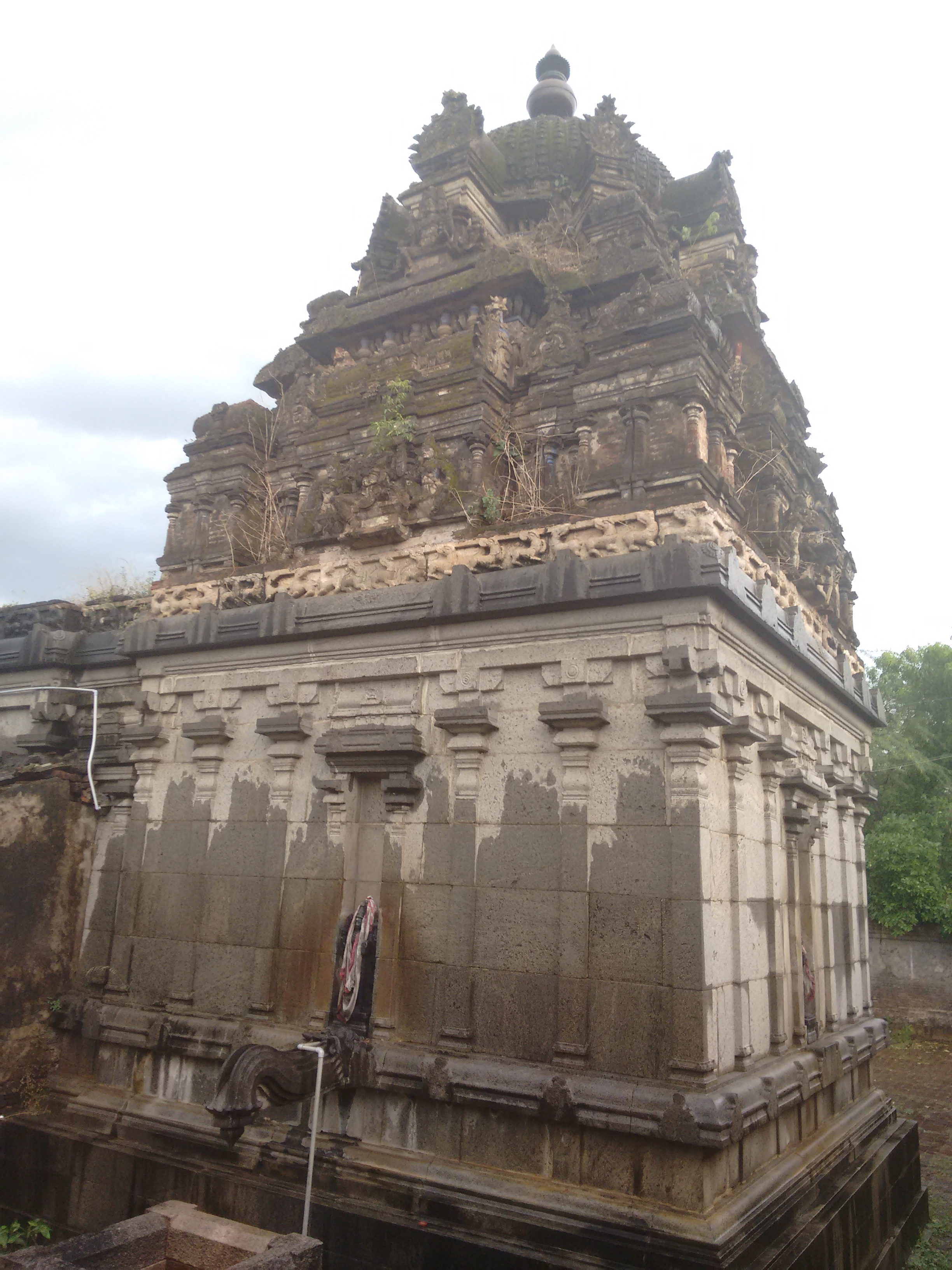 Tirunindriyur Mahalakshmeeswarar Temple திருநின்றியூர் மகாலட்சுமீசர் கோயில்